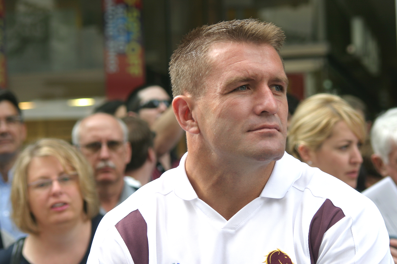 A winning Bronco on parade through Brisbane City